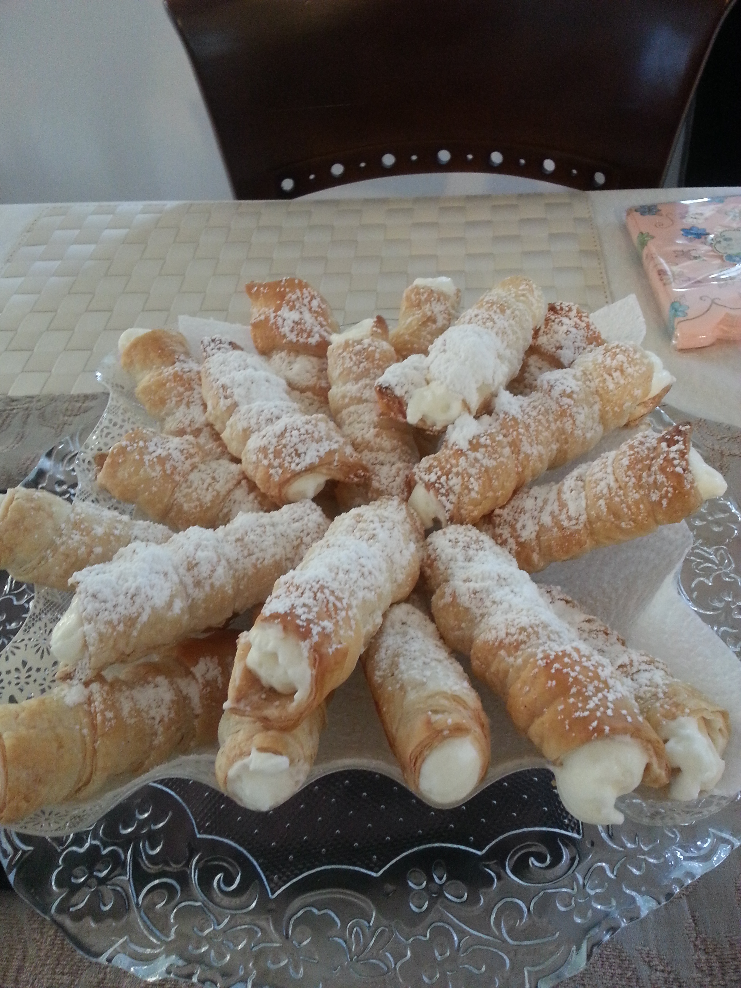 Schaumrolles (a.k.a. foam rollers or Schillerlocken), made from Phileas Dough, injected with whipped cream, whipped with milk, vanilla sugar and instant vanilla pudding. Sprinkled with sugar dust. See making process in this picture.